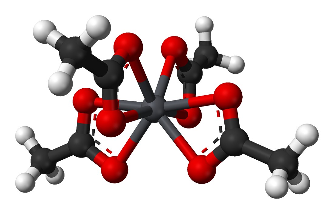 Ball-and-stick model of the lead tetraacetate molecule, Pb(OAc)4. X-ray crystallographic data from Markus Schürmann and Friedo Huber (1994). "A Redetermination of Lead(IV) Acetate". Acta. Cryst. C50: 1710-1713.